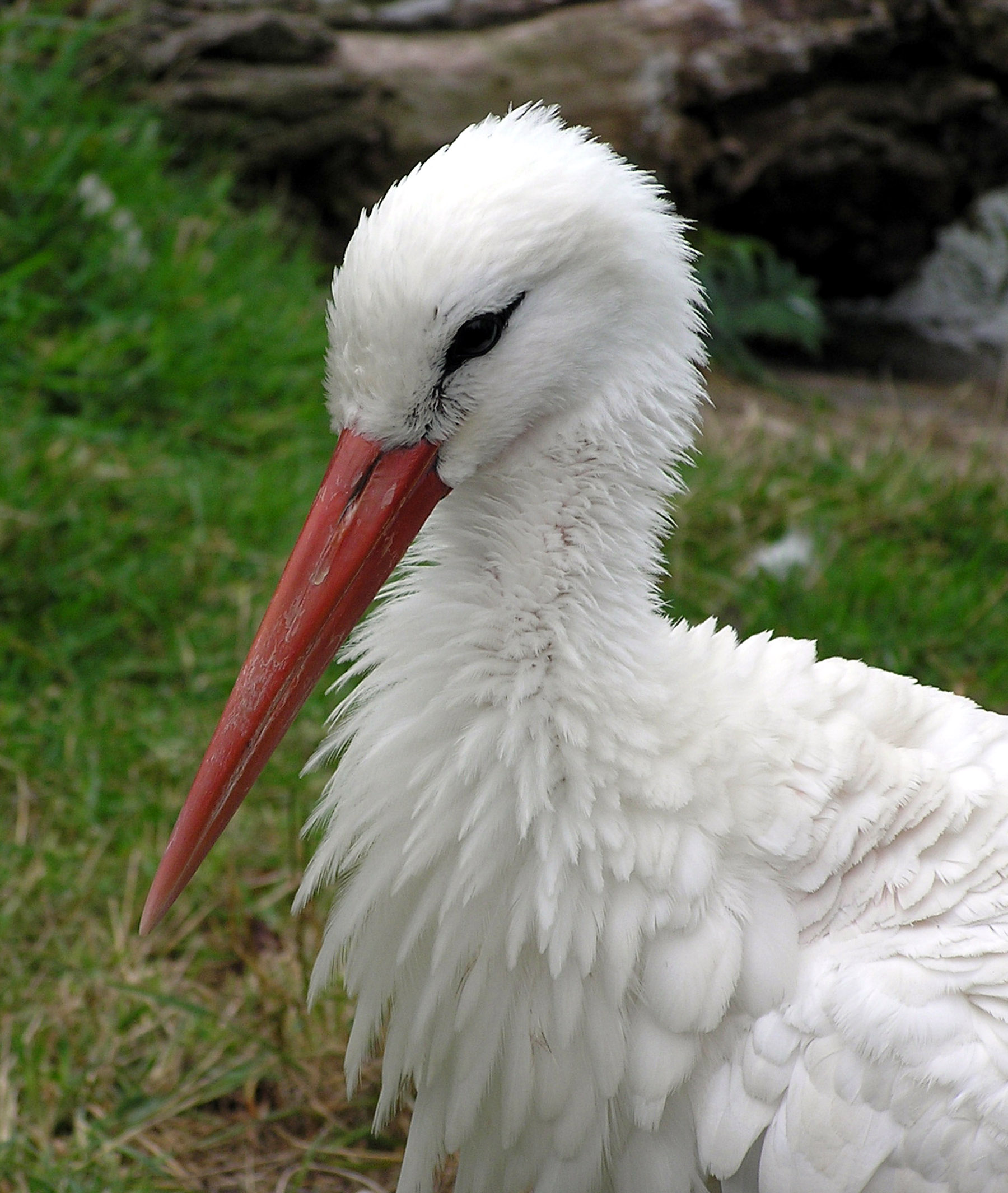 White Stork Ciconia ciconia at Bristol Zoo, Bristol, England.